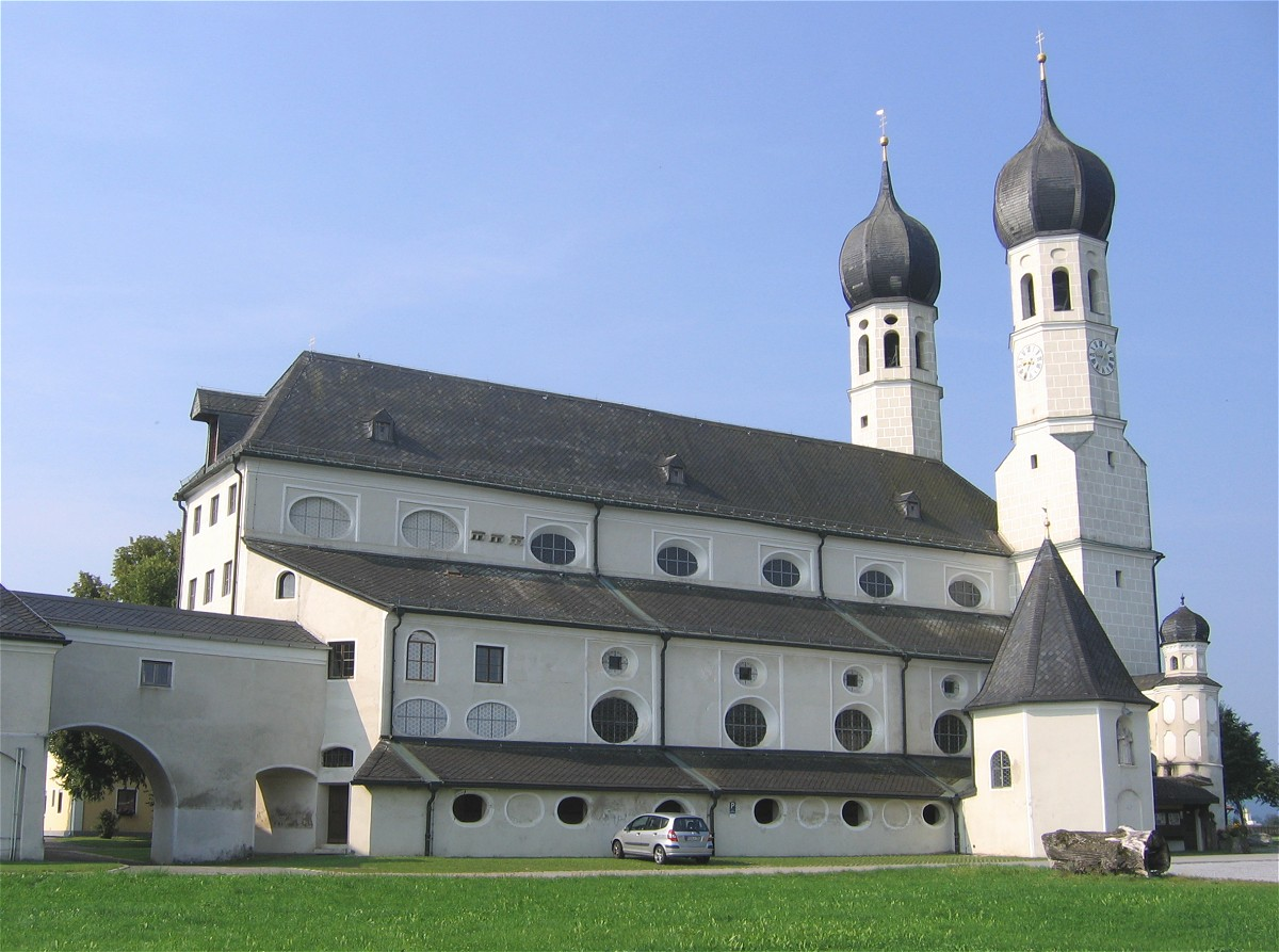 Weihenlinden, view of Holy Trinity Sanctuary from north-east.